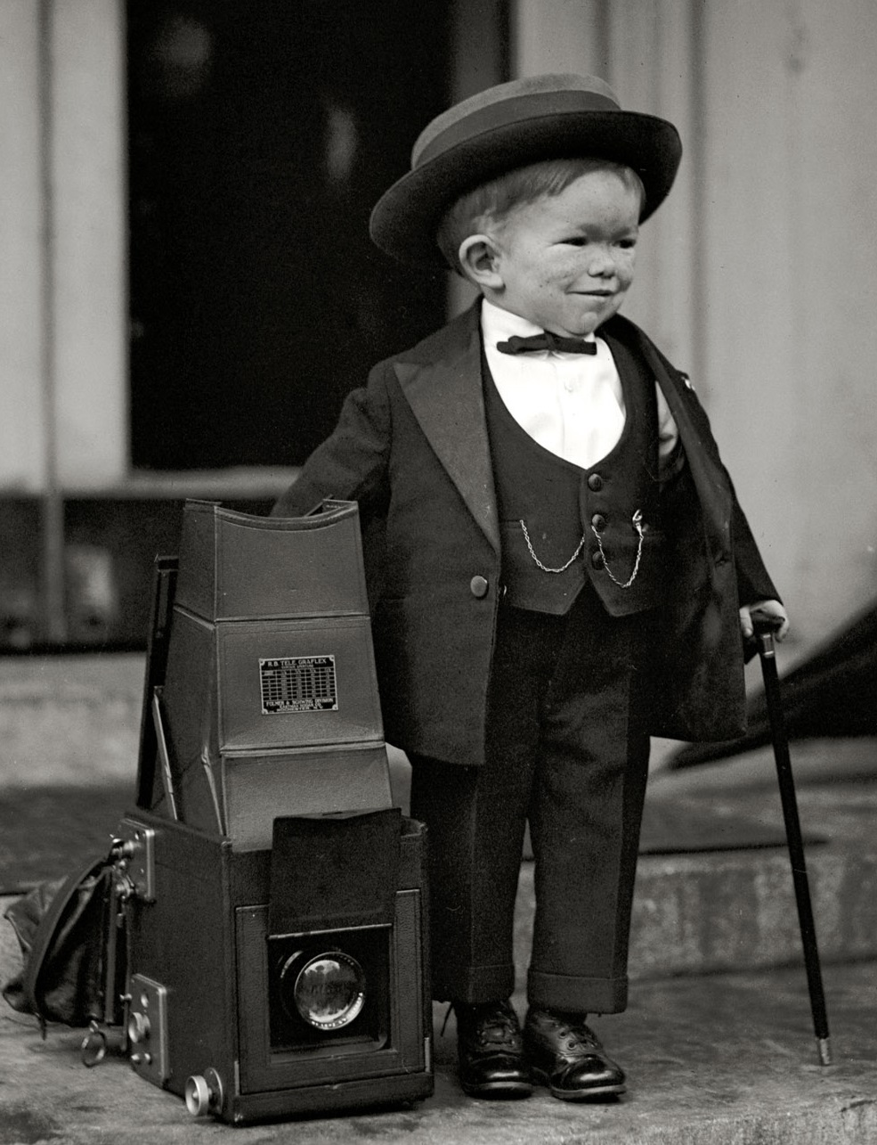 Photograph of "Maj. Mite" published in The Washington Post – December 8th, 1922.